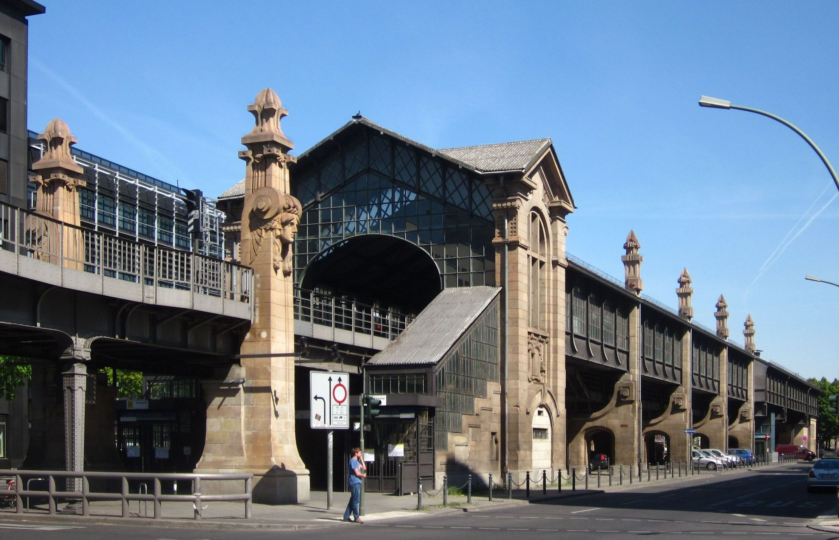 U-Bahn station Bülowstraße in Berlin-Schöneberg.